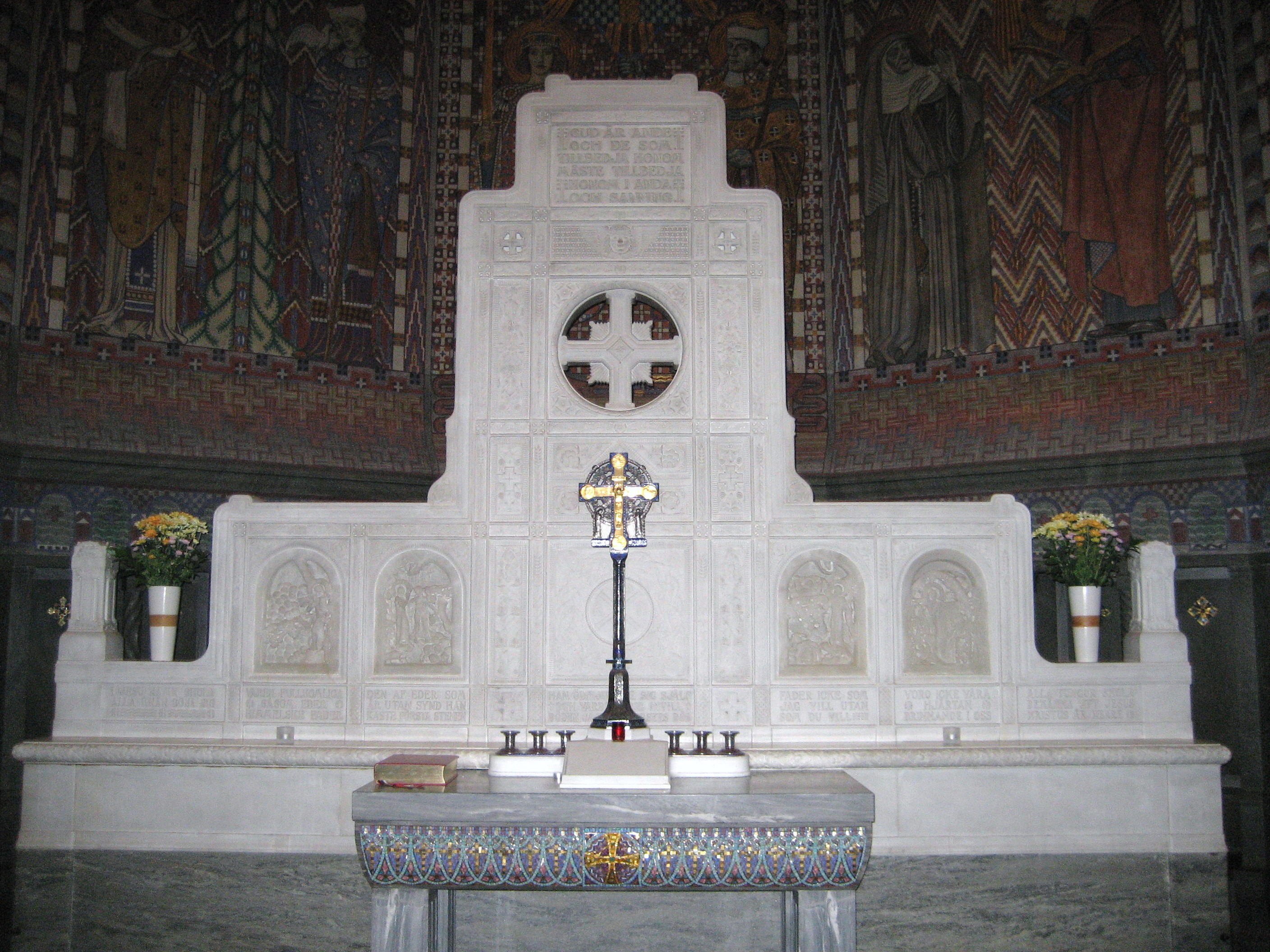 Uppenbarelsekyrkan, Saltsjöbaden, Stockholm County, Sweden. Altar.